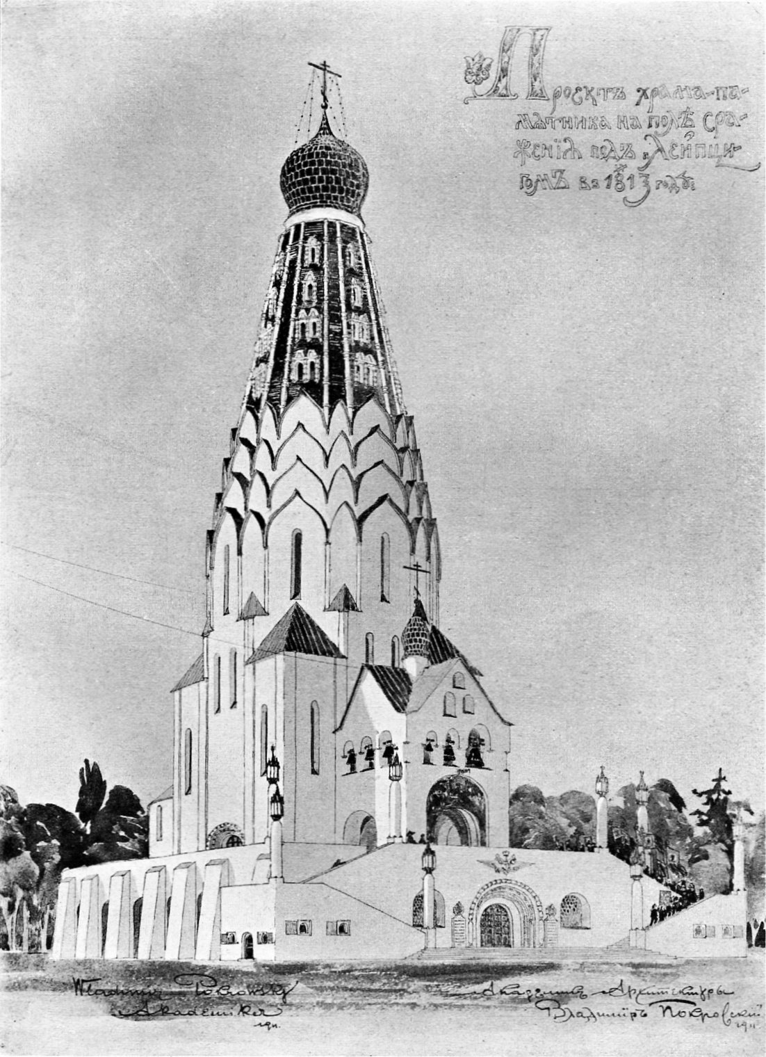 Vladimir Alexandrovich Pokrovsky (1871-1931), design for memorial church in Leipzig